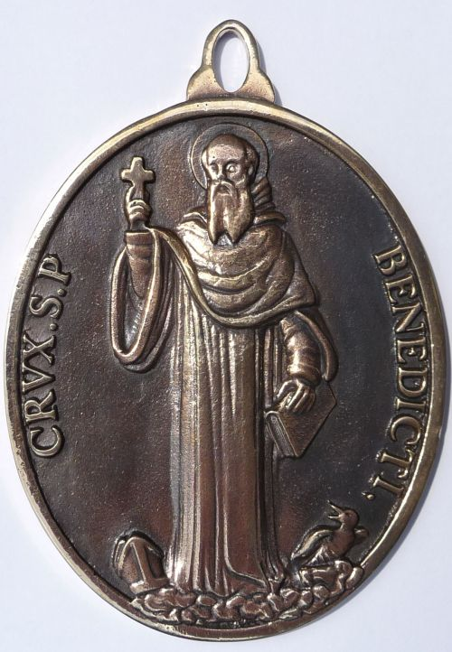 Medallion, St Saint Benedict Cross, Catholic sacramentalium - traditional, classic, original design